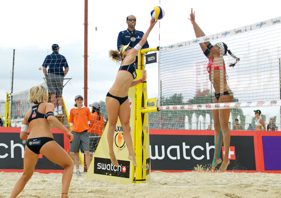 Grand Slam Moscow 2012